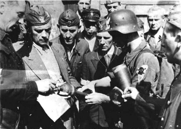 Warsaw Uprising: Capitan Cyprian Odorkiewicz "Krybar" comander of "Krybar" Regiment (second from left) inspects ammunition for PIAT belonging to "Rafałki" unit during inspection in Okólnik gardens. "Rafałki" was a unit of Jan Potulicki "Rafał Olbromski" and were send from "Kedyw" to support Powiśle district. Unit was part of "Kedyw" OW as well as to 3rd "Konrad" Regiment part of "Krybar" Regiment.